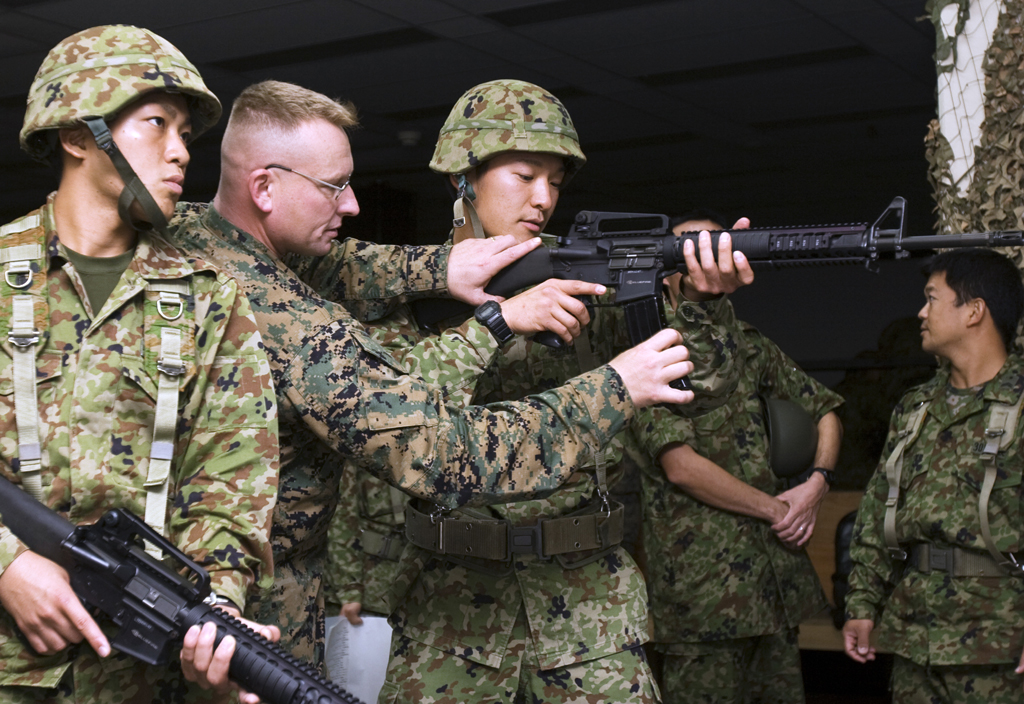 Staff Sgt. Jeffery Wagner, a tactics instructor with 3rd Marine Logistics Group, aids a soldier with the Japan Ground Self Defense Force during the Japanese Observer Exchange Program on Camp Kinser Nov. 28.